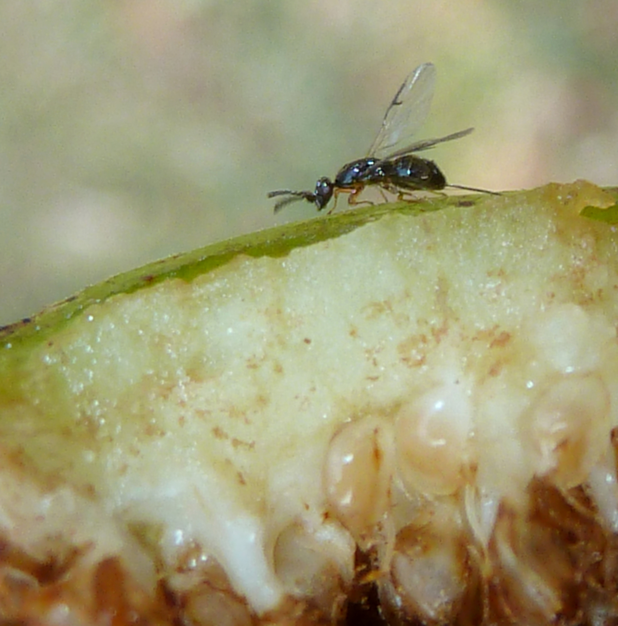 Ceratosolen capensis pollinating gall wasp on Ficus sur, Jan Celliers Park